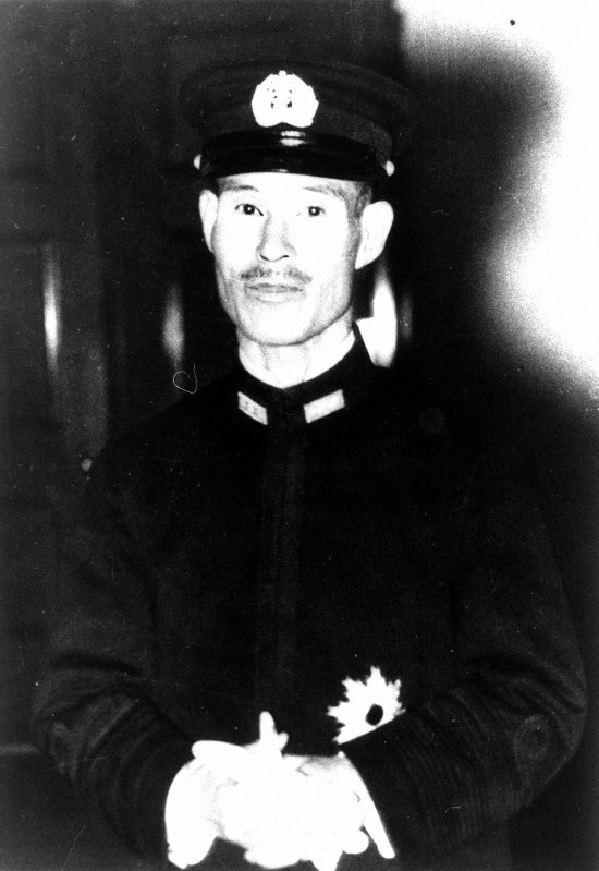 Katunoshin Yamanashi is an Imperial Japanese Navy Full Admiral